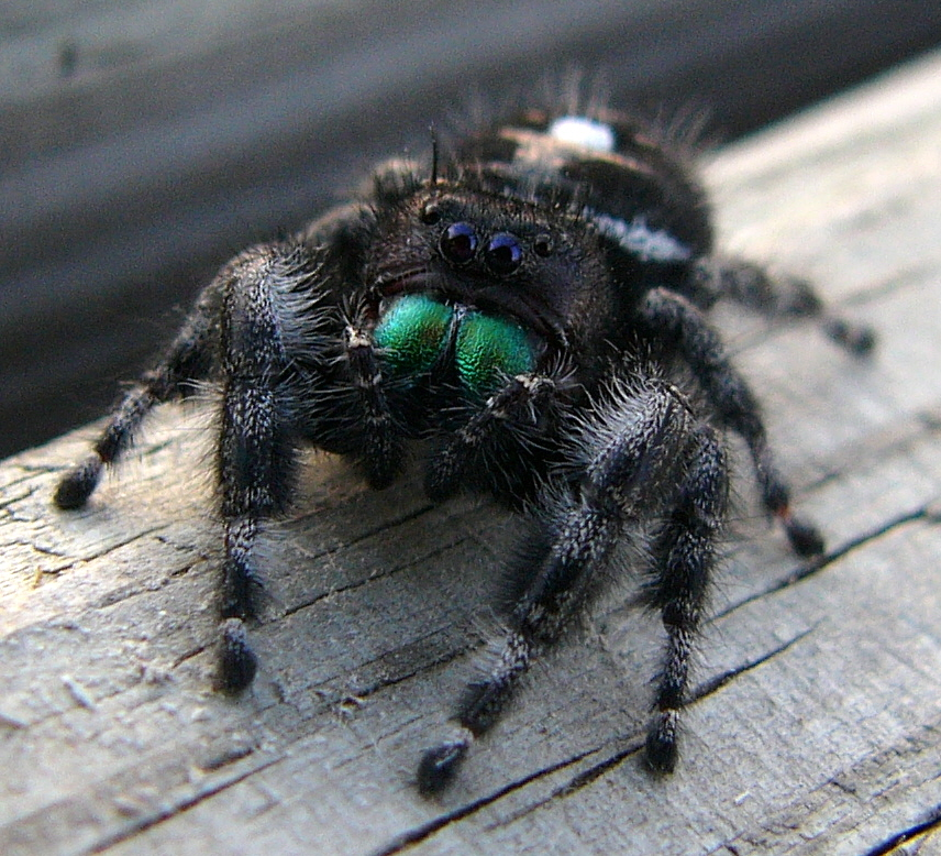 A Jumping Spider Jumping Spiders don't build webs to catch prey, but instead chase bugs down and jump on them! They can literally snatch a fly out of mid air. There are over 5000 species of jumping spider, this LOOKs like it may be Phidippus audax (Bold Jumpers). But I wouldn't stake my life on it. Spider experts say that to properly identify a spider they frequently have to put it under a microscope. This fat little spider was very shy, which is unusual for Salties. But I finally managed to get it to pose for me. This is Phidippus audax. --Sarefo (talk) 12:26, 16 February 2009 (UTC)Jumping Spider